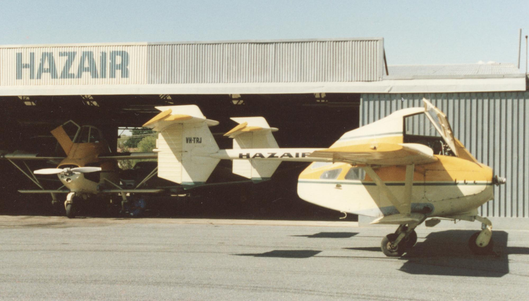 Transavia PL.12 Airtruk VH-TRJ crop-spraying aircraft of Hazair at Albury airport, New South Wales